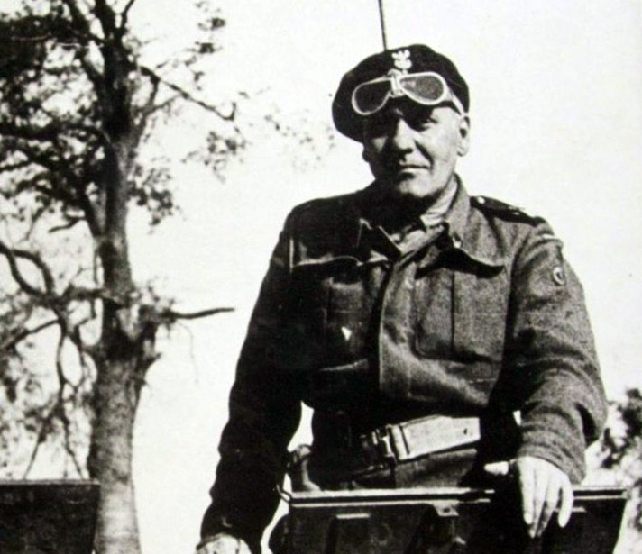 Stanisław Maczek (1892-1994) - General of the Polish Army